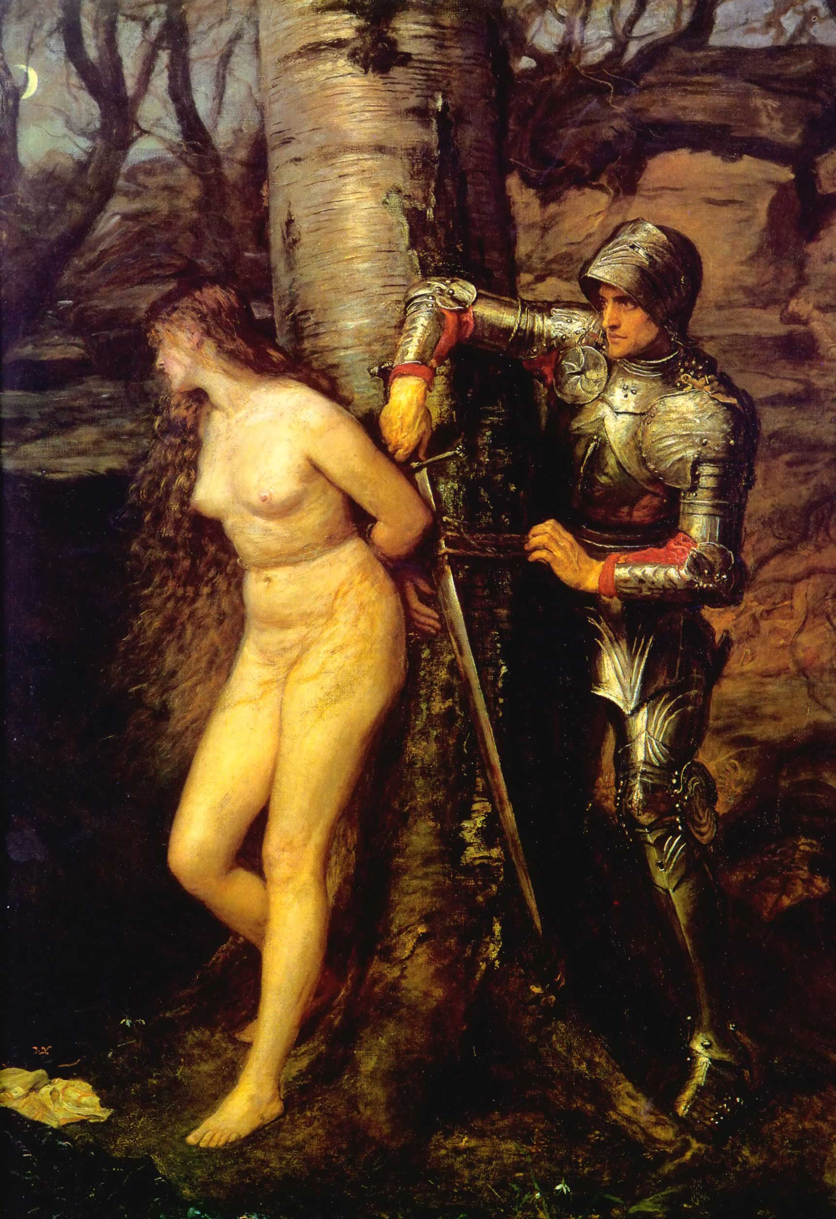 The chivalrous knight's gaze is averted from her nakedness.